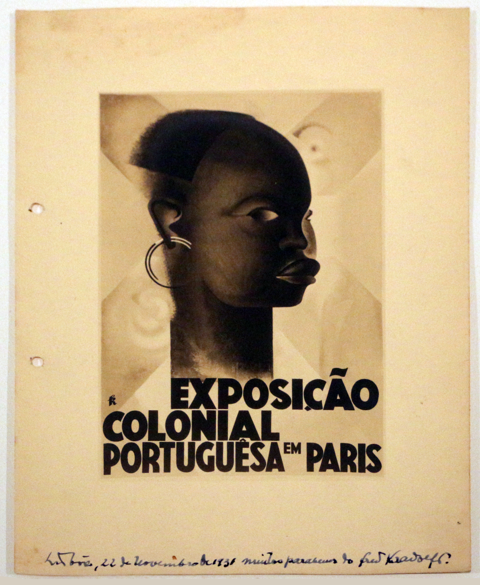 Calouste Gulbenkian Museum